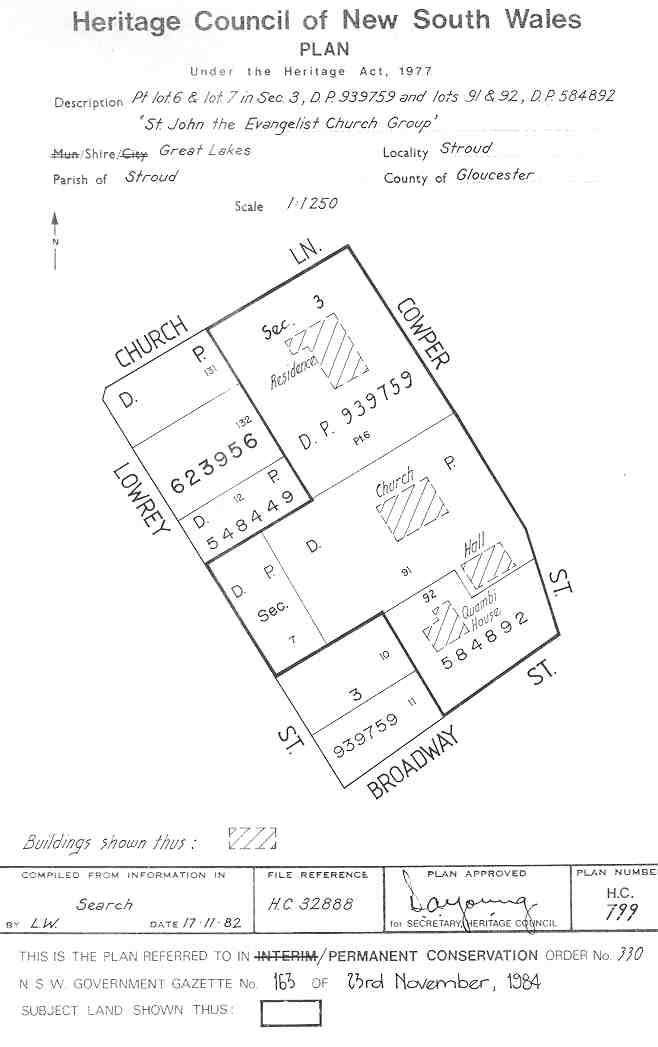 St John the Evangelist Anglican Church, Stroud: PCO Plan Number 330